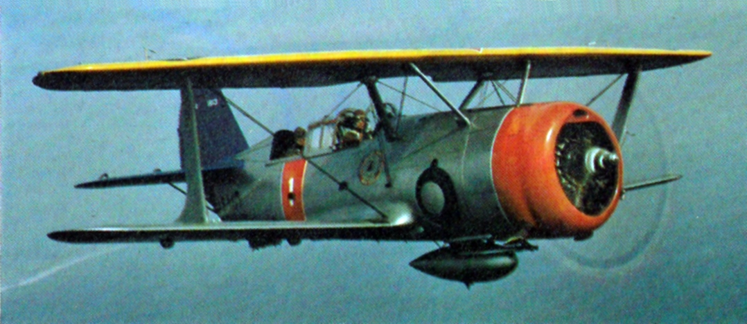 A U.S. Navy Curtiss SBC-4 Helldiver (BuNo 1813) assigned to Naval Air Reserve Air Base New York, Floyd Bennett Field, in flight. Note the NRAB New York insignia on the fuselage of the aircraft. The SBC-4 BuNo 1813 was one of the aircraft transferred to USAAC on 8 June 1940 and then to the French Navy. 44 were loaded aboard the French aircraft carrier Béarn at Dartmouth, Nova Scotia. France surrendered while Béarn was crossing the Atlantic; she turned south to Martinique, where the SBC-4s corroded in the humid Caribbean climate while waiting on a hillside near Fort-de-France. 5 aircraft left in Canada were used by the Royal Air Force as instructional airframes.